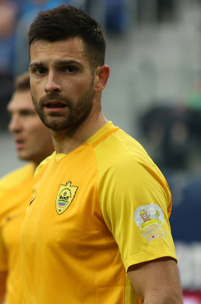 Miral Samardžić with FC Anzhi Makhachkala in a game against FC Zenit St. Petersburg.